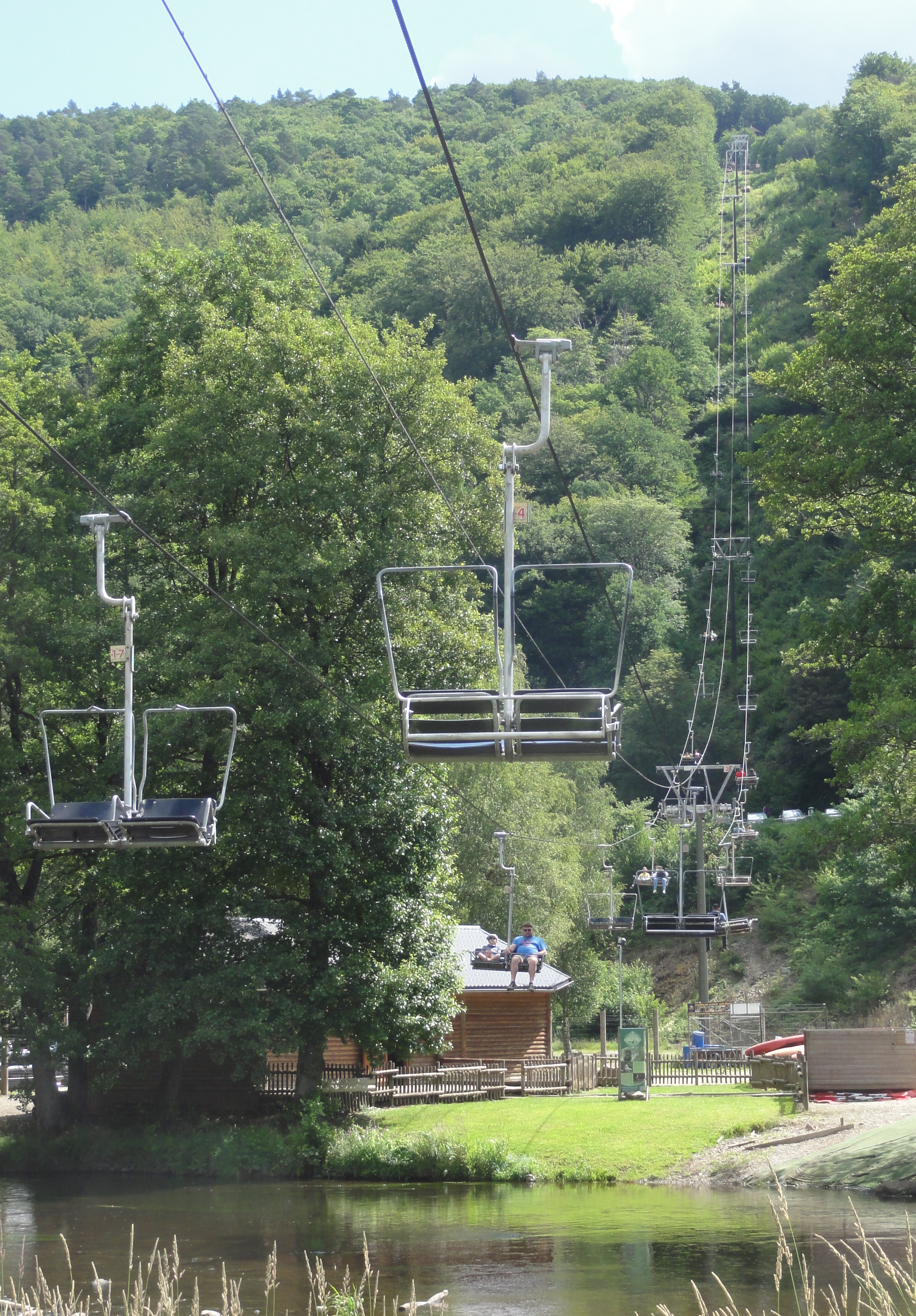 Depicted place: Plopsa Coo